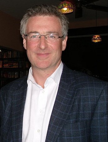 Financial Times Author James Kynge